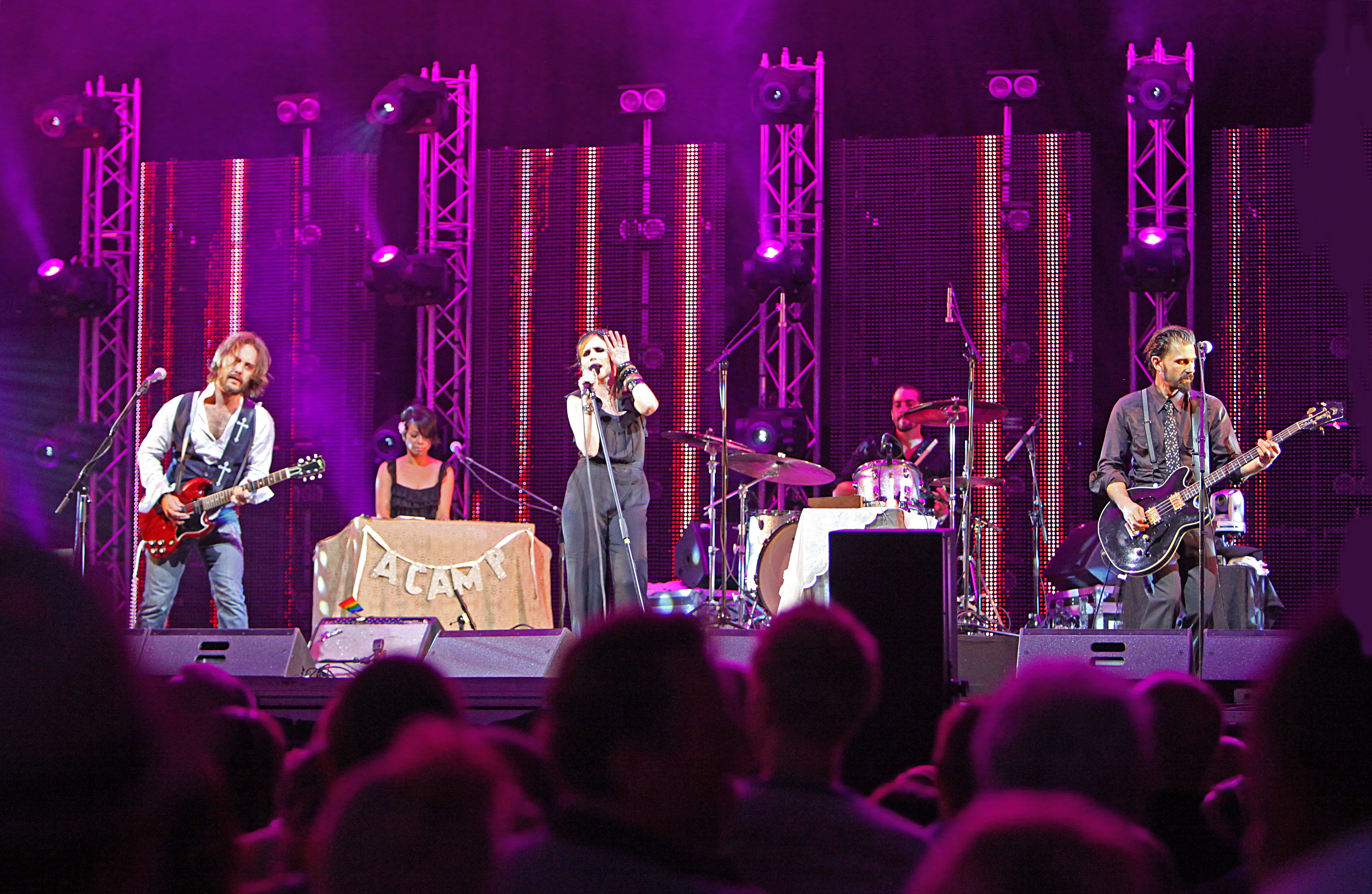 Swedish popband A Camp performing at Stockholm Pride Festival, july 2009